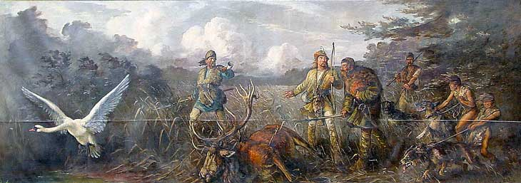 Ludwig Bang: Heinrich Borwins Schwur or Die Legende von Doberan, monumentakl painting (2x6m), 1915, Neues Rathaus, Bad Doberan